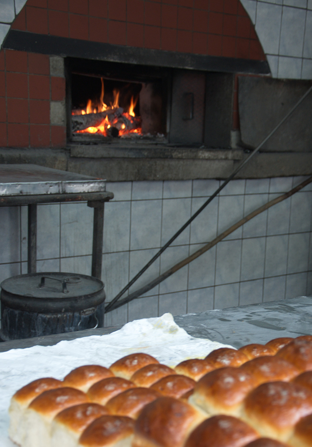 Panoramic scenes of the Pester plateau, karst region in southwestern Serbia. It situated in the area of Raska. The most part of Pešter is located in the municipality of Sjenica. The relief of Pester Plateau is characterized by low, hilly terrain, streams of clean water and vast meadows that are used for grazing sheep and cattle. Pester field is a region of outstanding natural value. A part of Pester is the Uvac River Canyon. In the canyon of the river Uvac nests large colony of eagles, vultures - Gyps fulvus.